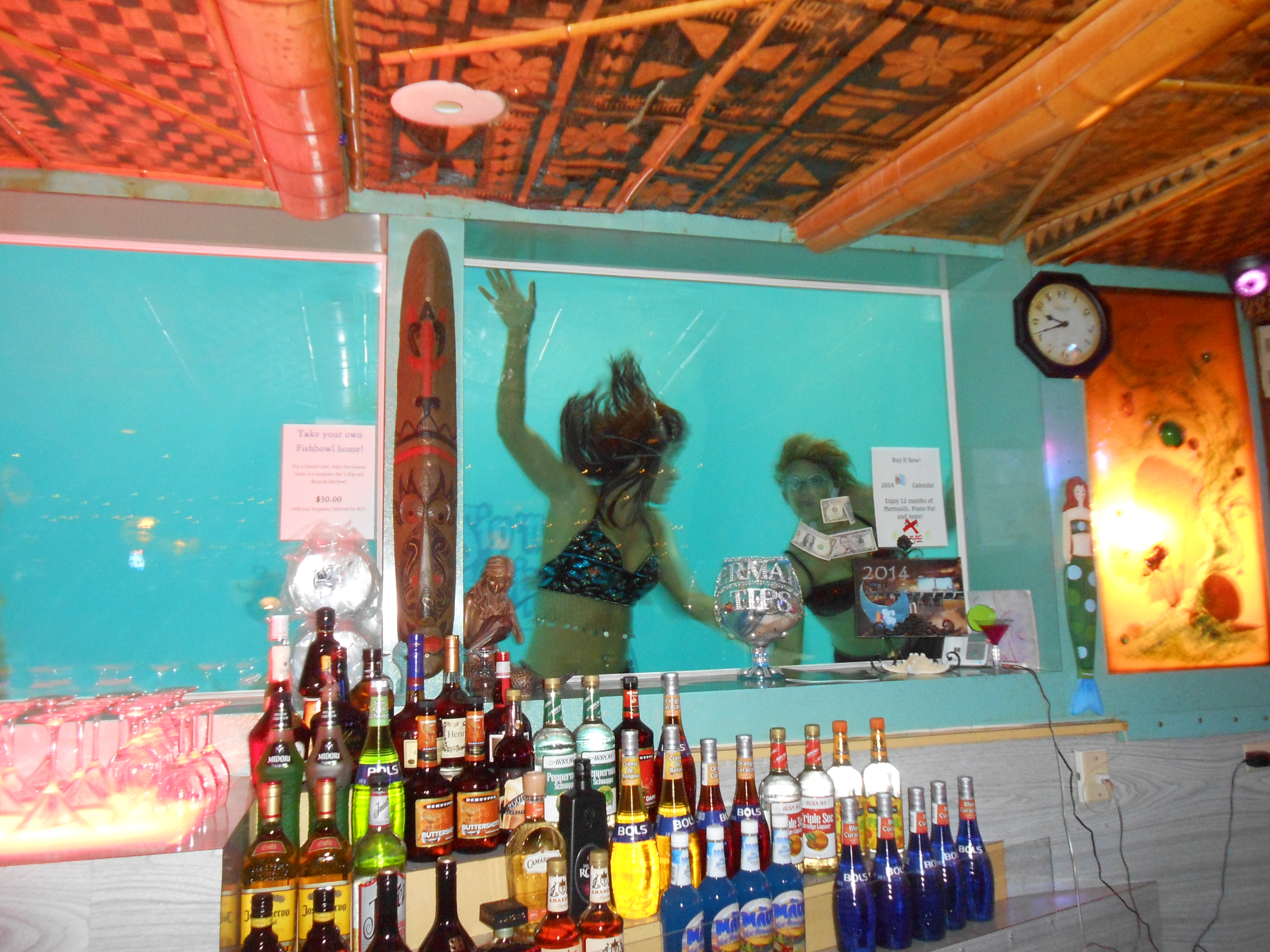 Mermaids at the Sip n Dip, Great Falls, Montana, 2014